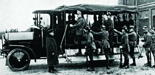 NAG KL8 truck as personnel carrier of German Police probably in Berlin (1926)